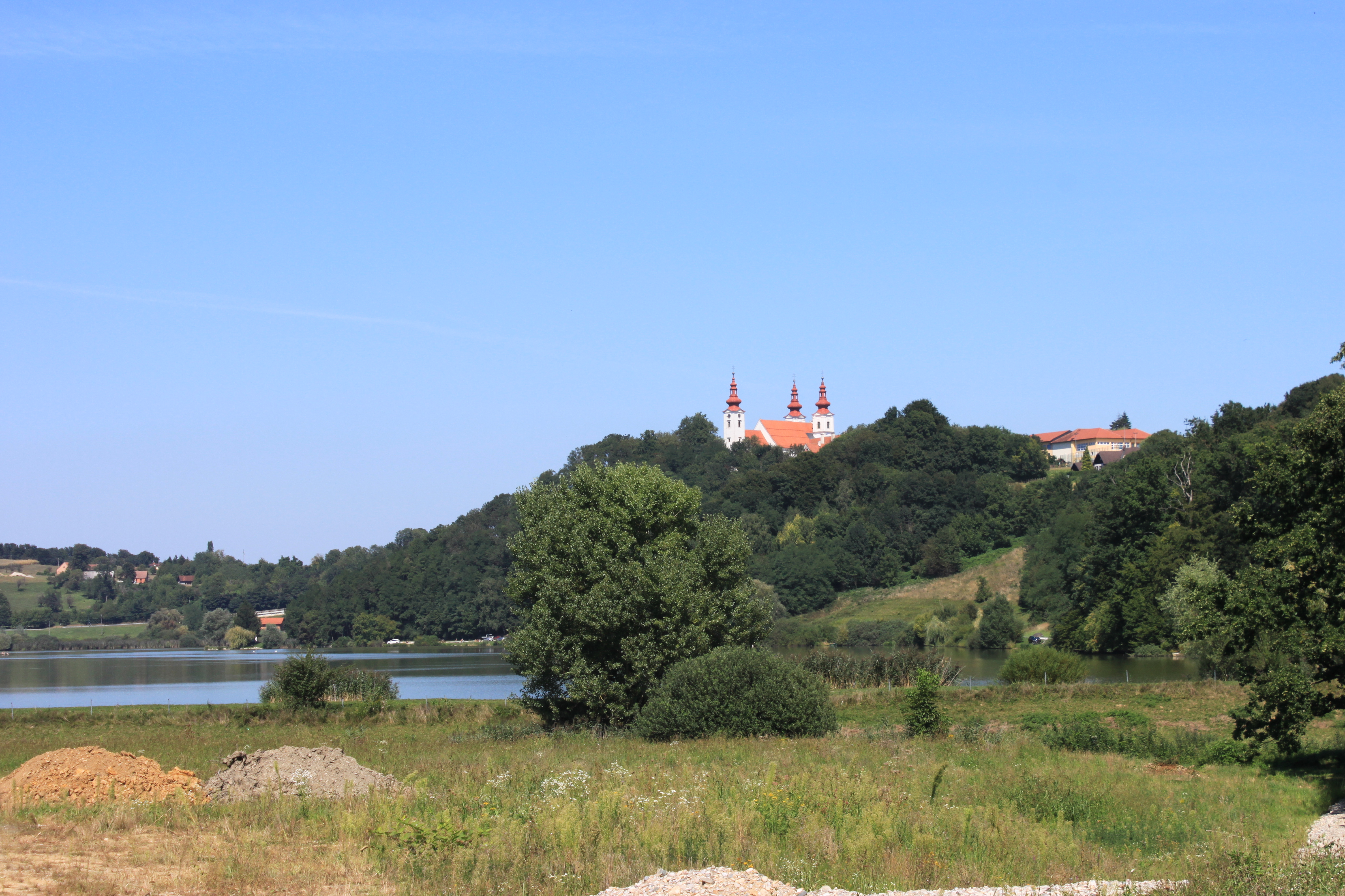 Holy Trinity Church in Heilige Dreifaltigkeit in den Windischen Büheln (Sveta Trojica v Slovenskih Goricah), Slovenia; with Troijka Reservoir, view from south